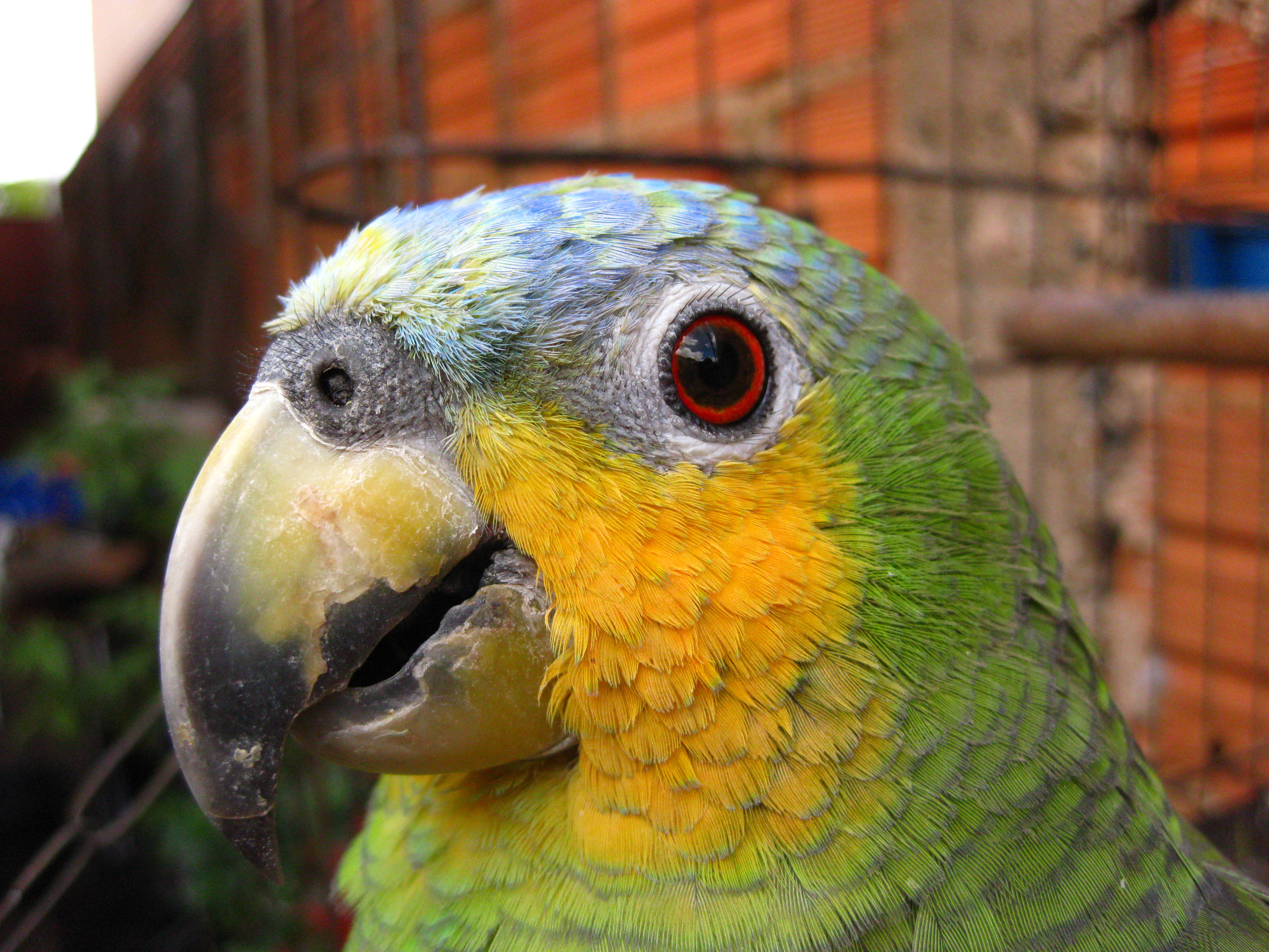 Orange-winged Amazon in an aviary.